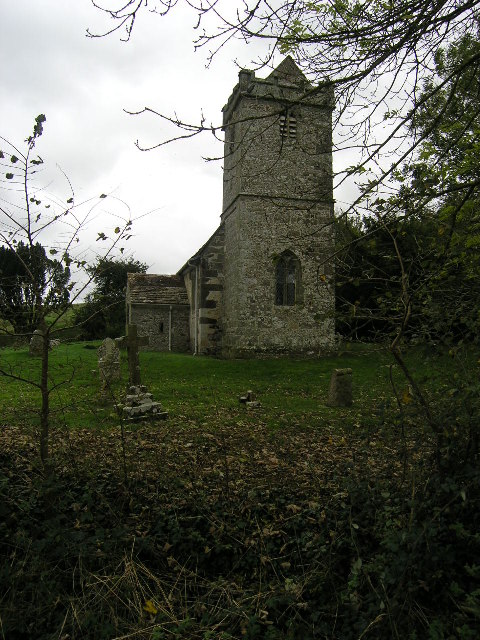 Tarrant Crawford, Dorset, St Mary's Church. Stands alone by the River Tarrant, and is now vested in the Churches Conservation Trust.